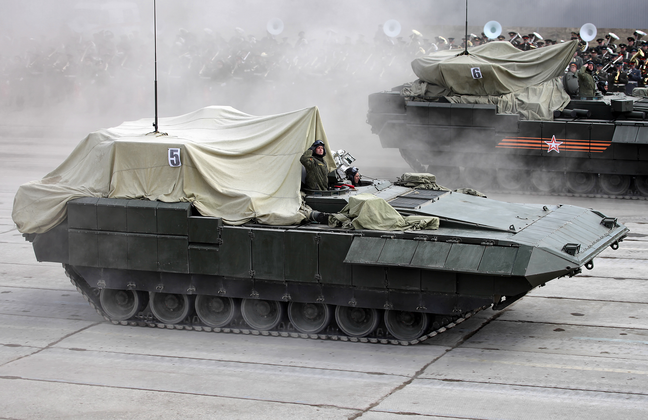 Heavy IFV T-15 object 149 Armata (during the first open rehearsal in Alabino)